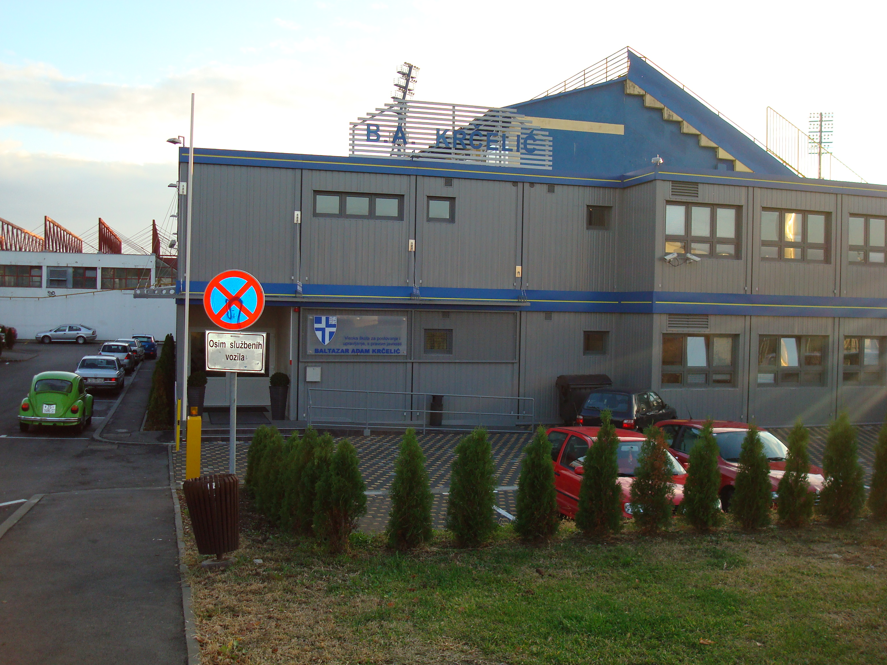 Baltazar Adam Krčelić Academy in Zaprešić, as of 2009.